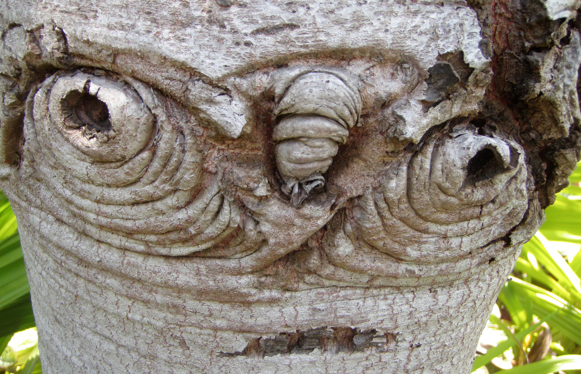 Bark details of Silver tree, Leucadendron argenteum. The image was taken in San Francisco Botanical Garden